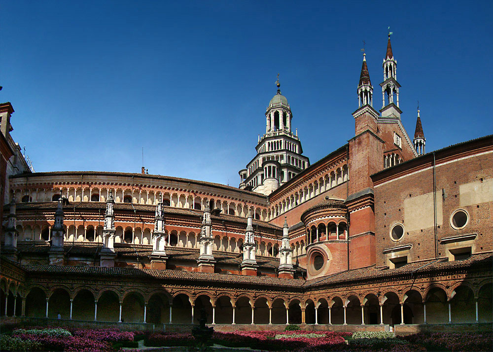 Certosa di Pavia, Lombardy, Italy. The lesser cloister.